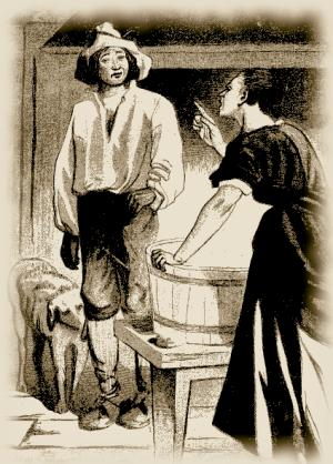 Rip Van Winkle scolded by his wife, illustration to the poem Rip Van Winkle And His Wonderful Nap